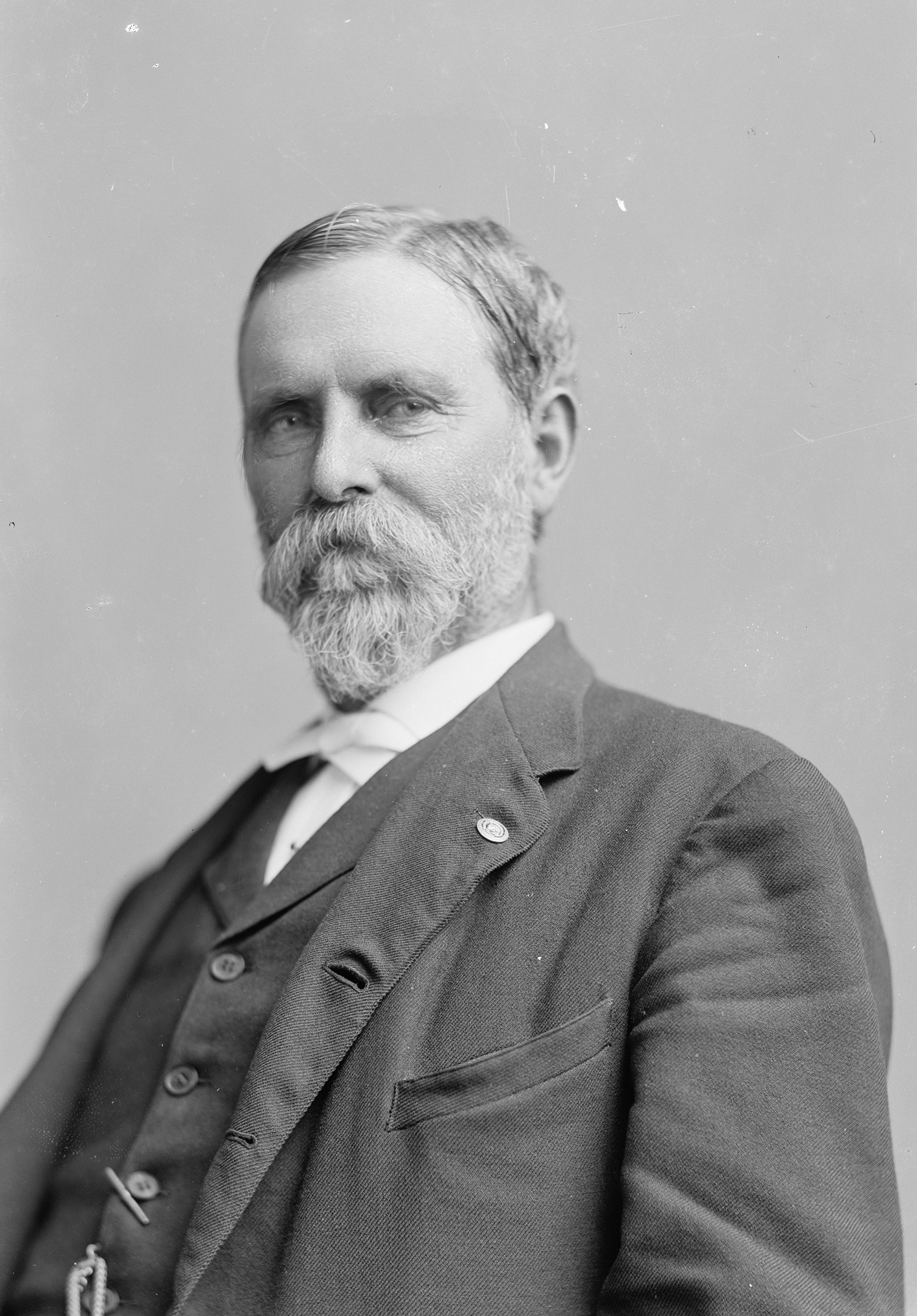 George Augustus Armes between 1903-1905 photographed by C. M. Bell Studio